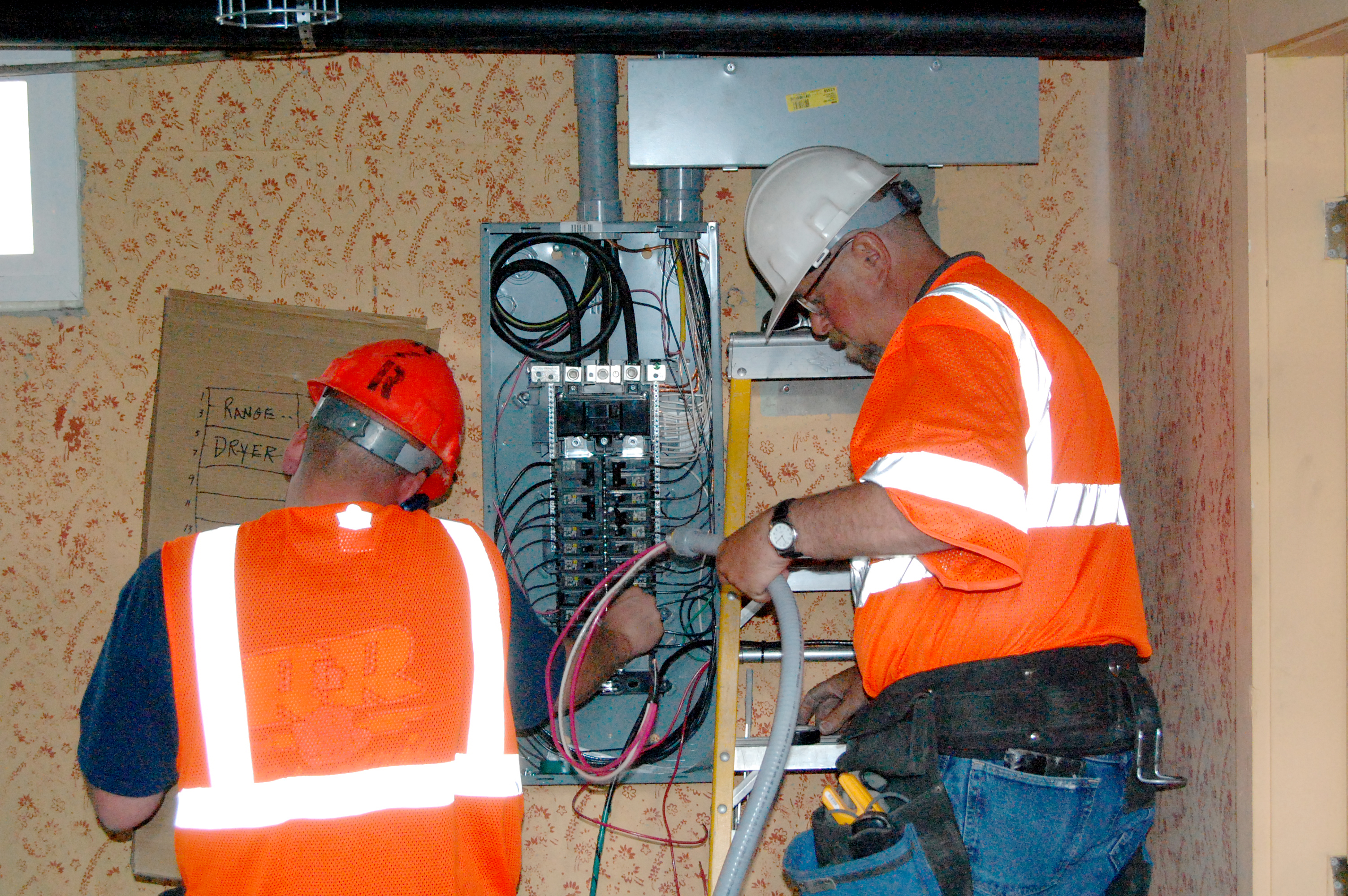 Workers from Burton Construction, Inc., wire the new fusebox as part of the Quarters 2 electrical system replacement at the Camas National Wildlife Refuge. The electrical system project was part of a larger renovation of Quarters 2, and was completed in October 2010 using $109,000 in Recovery Act funding. You are free to use this image with the following photo credit: U.S. Fish and Wildlife Service